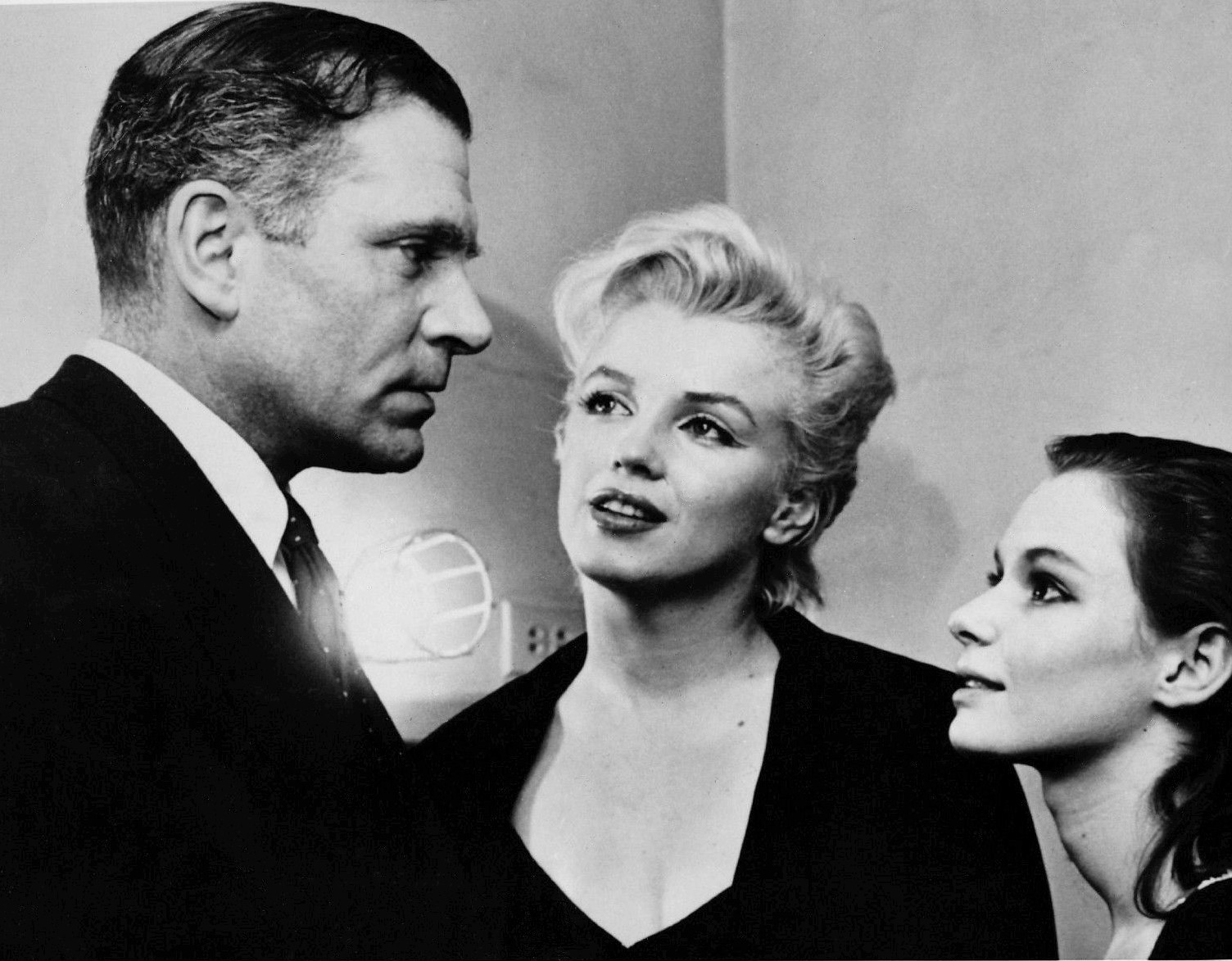 Photo of Sir Laurence Olivier, Marilyn Monroe and Susan Strasberg. Olivier and Monroe were visiting Strasberg backstage when she was starring in The Diary of Anne Frank on Broadway. The production closed June 22, 1957.